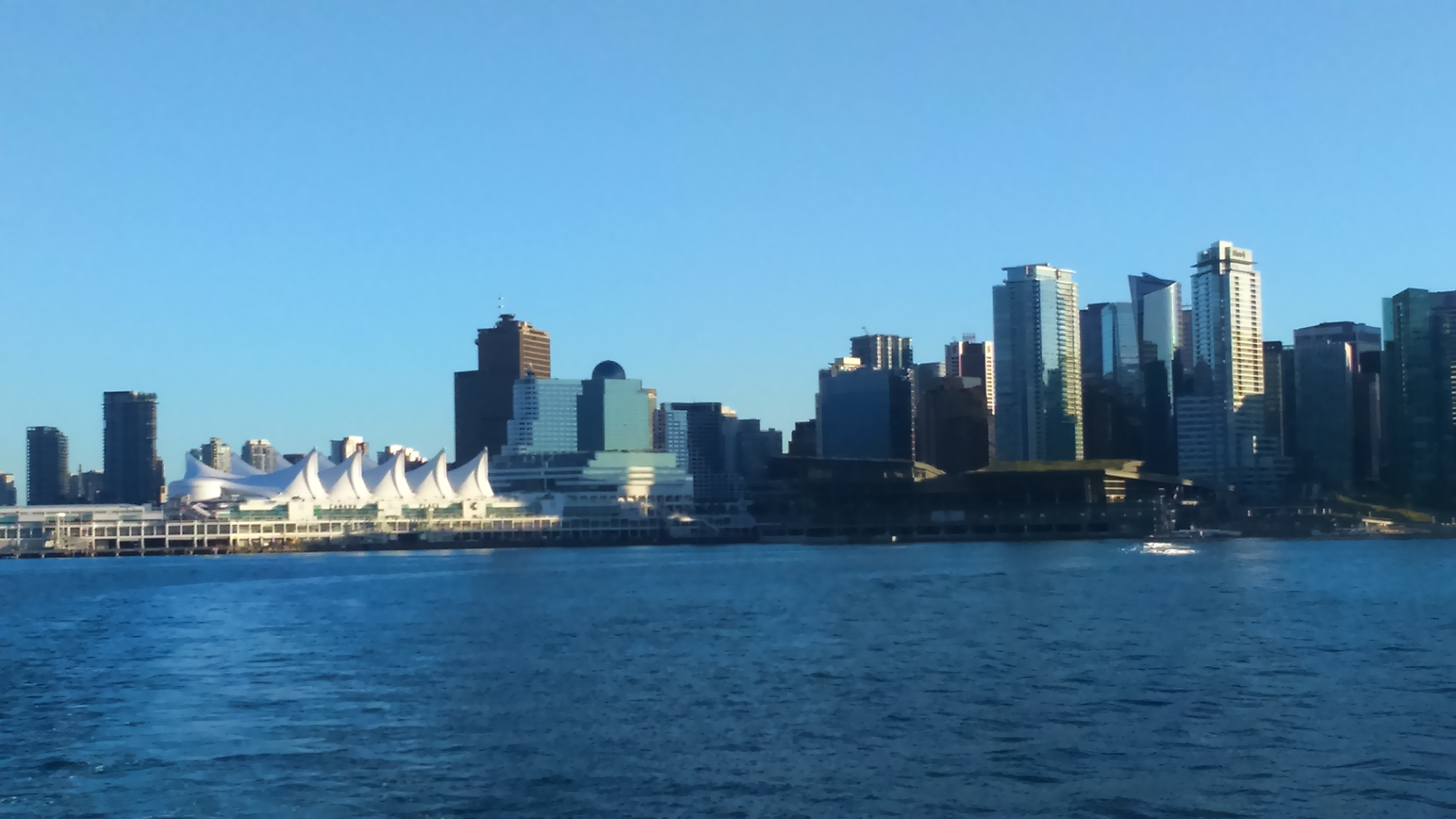 Photo of Canada Place with Downtown Vancouver, British Columbia, Canada on 22 August 2016